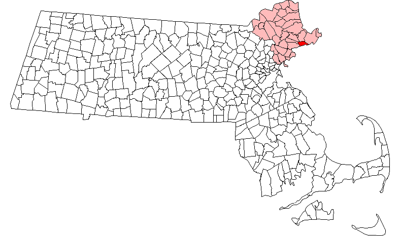 Map of Massachusetts towns with Manchester-by-the-Sea highlighted (red) inside Essex County (light red).